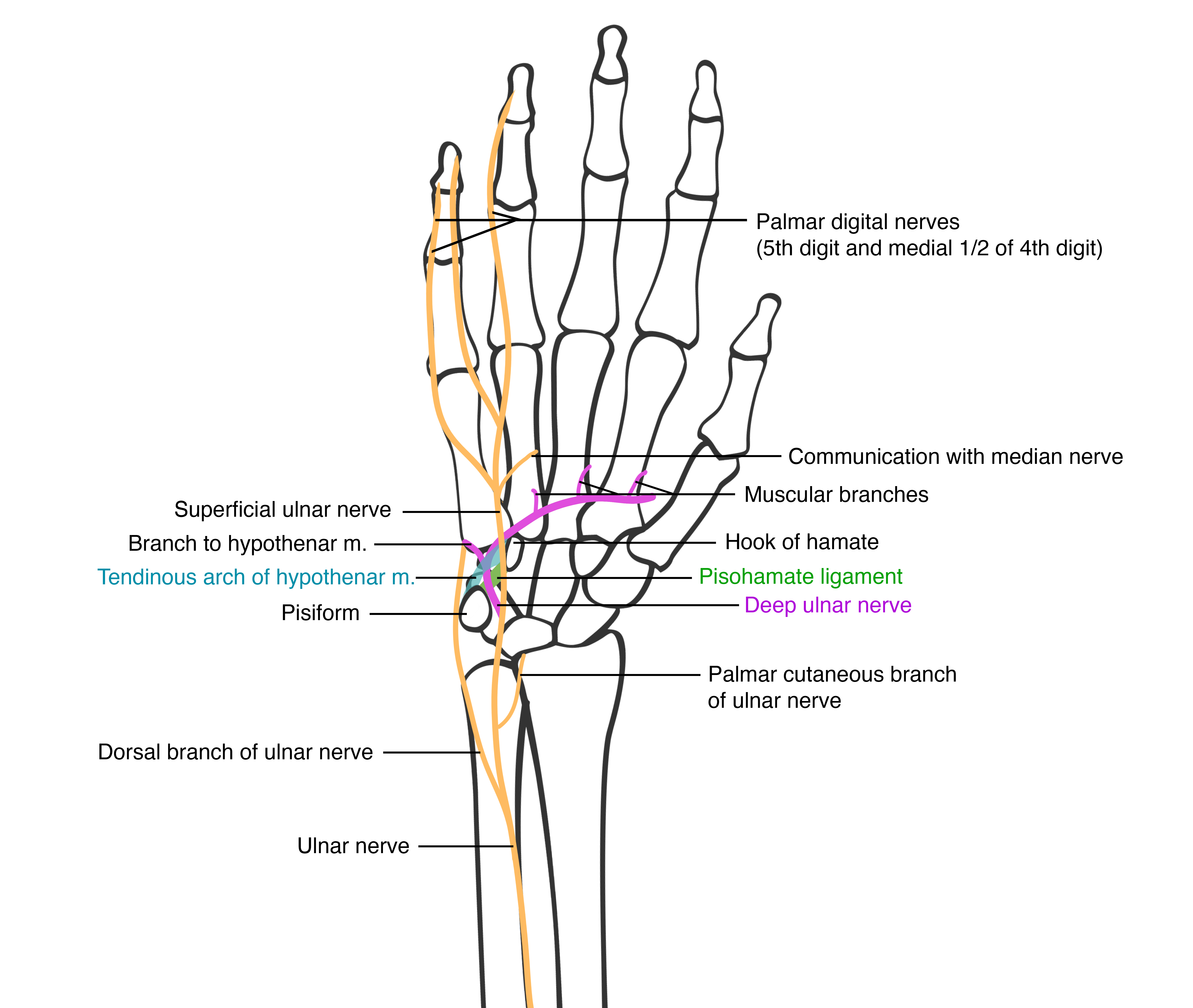 Branches of the ulnar nerve in hand